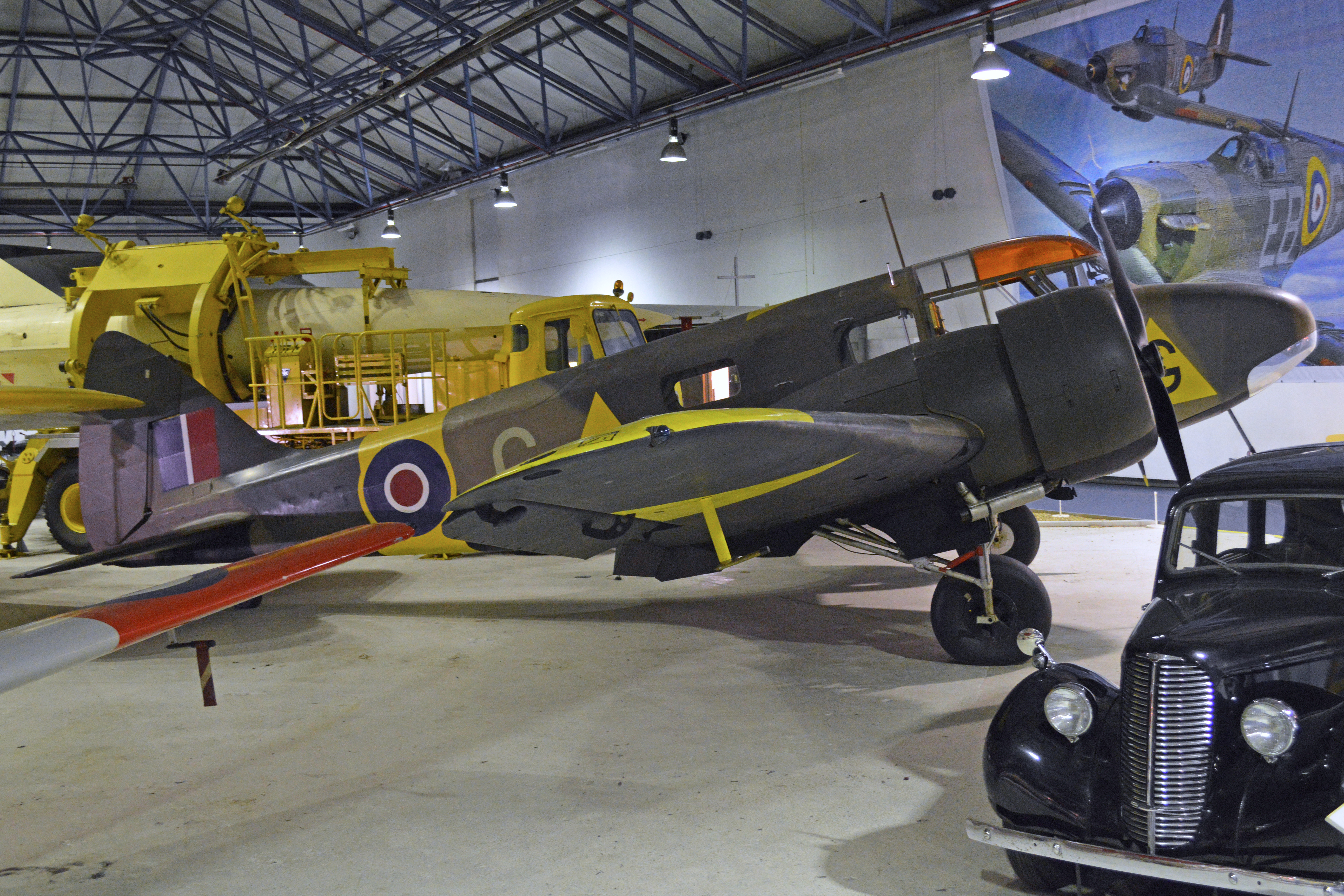 Built 1943 and served in night-flying and multi-engined training roles. Sold for civil use in November 1946 and registered G-AITB with Air Service Training Ltd. Flown by them until 1960 when she moved to Airwork at Perth. Retired in 1961, she became an instructional airframe until acquired by the RAF Museum in 1969. Restoration at RAF Cardington began in 1985 and was completed in 1990. Temporarily displayed at the Newark Air Museum until moving to Hendon in 1994 where she remains on display in the Bomber Command Hall. RAF Museum, Hendon, London, UK. 28th May 2016